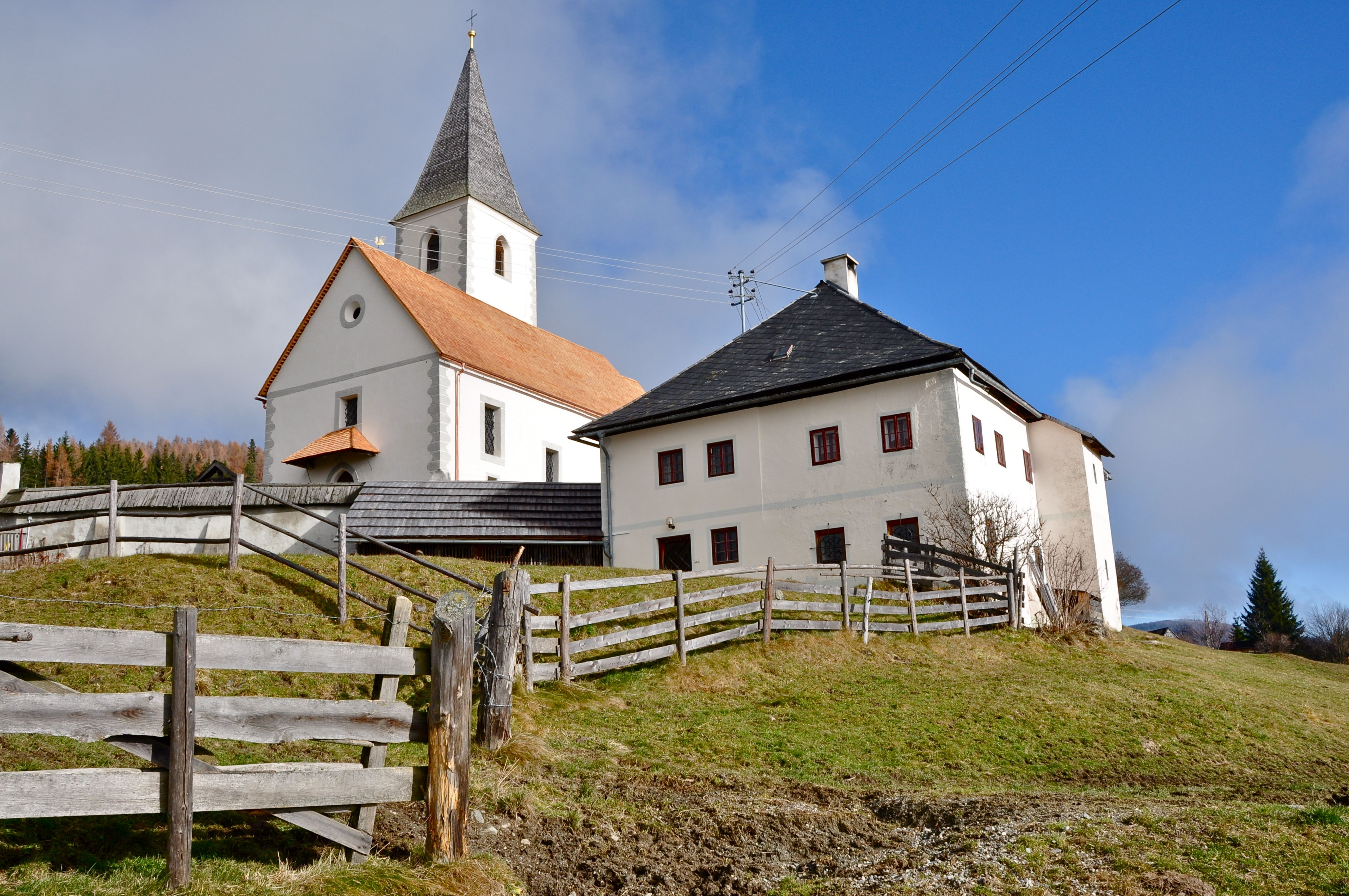 Parish church Saint Lawrence, cemetery and rectory at Sankt Lorenzen #12, municipality Reichenau, district Feldkirchen, Carinthia / Austria / EU